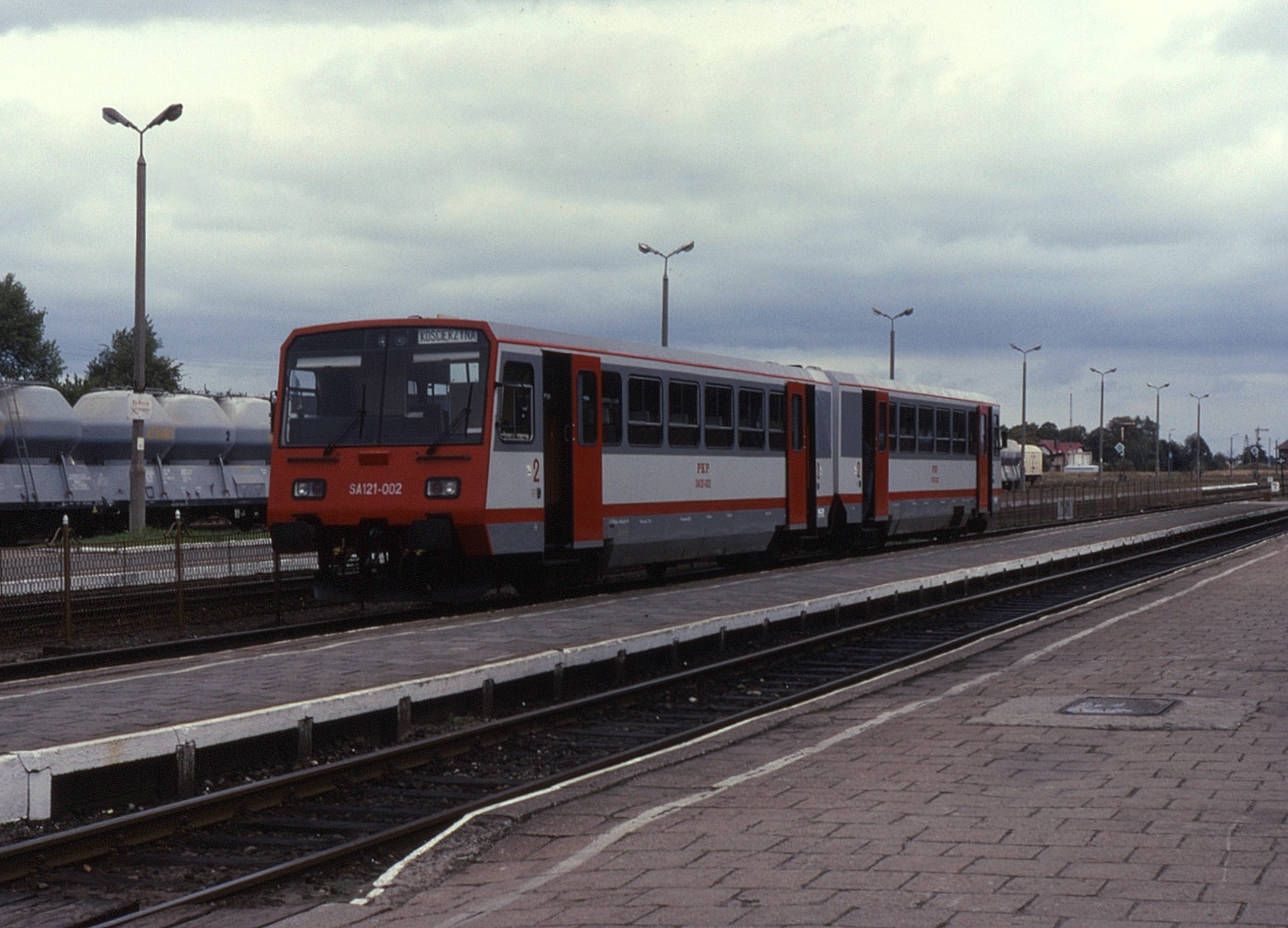 At the time of my visits to Poland in the 1990s, trains on non-electrifield line were almost entirely loco hauled. However a few railcars existed in traffic as virtually all of the 250 Ganz built SN61s had been withdrawn by then. In 1990 3 prototype 2-coach railcars were built by ZNTK in Poznań for trialling on lines in Northern Poland. At the time of uploading (March 2017) these units are still in traffic but scheduled for early withdrawal. However, numerous DMUs have been introduced in Poland both by national regional operator PR and the smaller regionally funded operators. On 15 September 1995, unit SA101-002 is seen working train 3329, 10:39 Chojnice to Koscierzyna at Czersk.